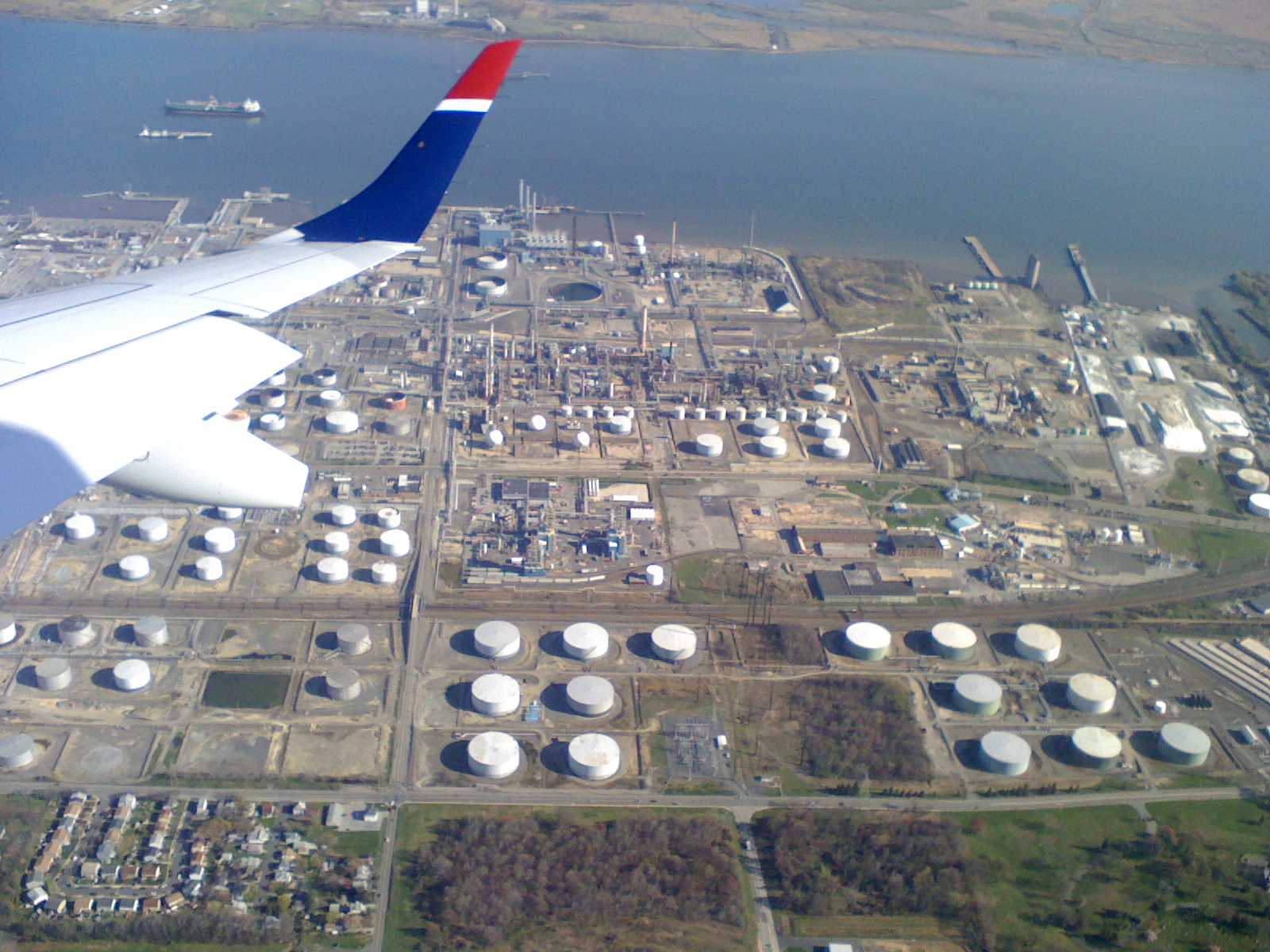 Taken on April 16, 2008 from an airplane, likely landing at PHL. Upper rh corner is in Delaware (right = south), NJ visible on the far side (top) of the Delaware River.